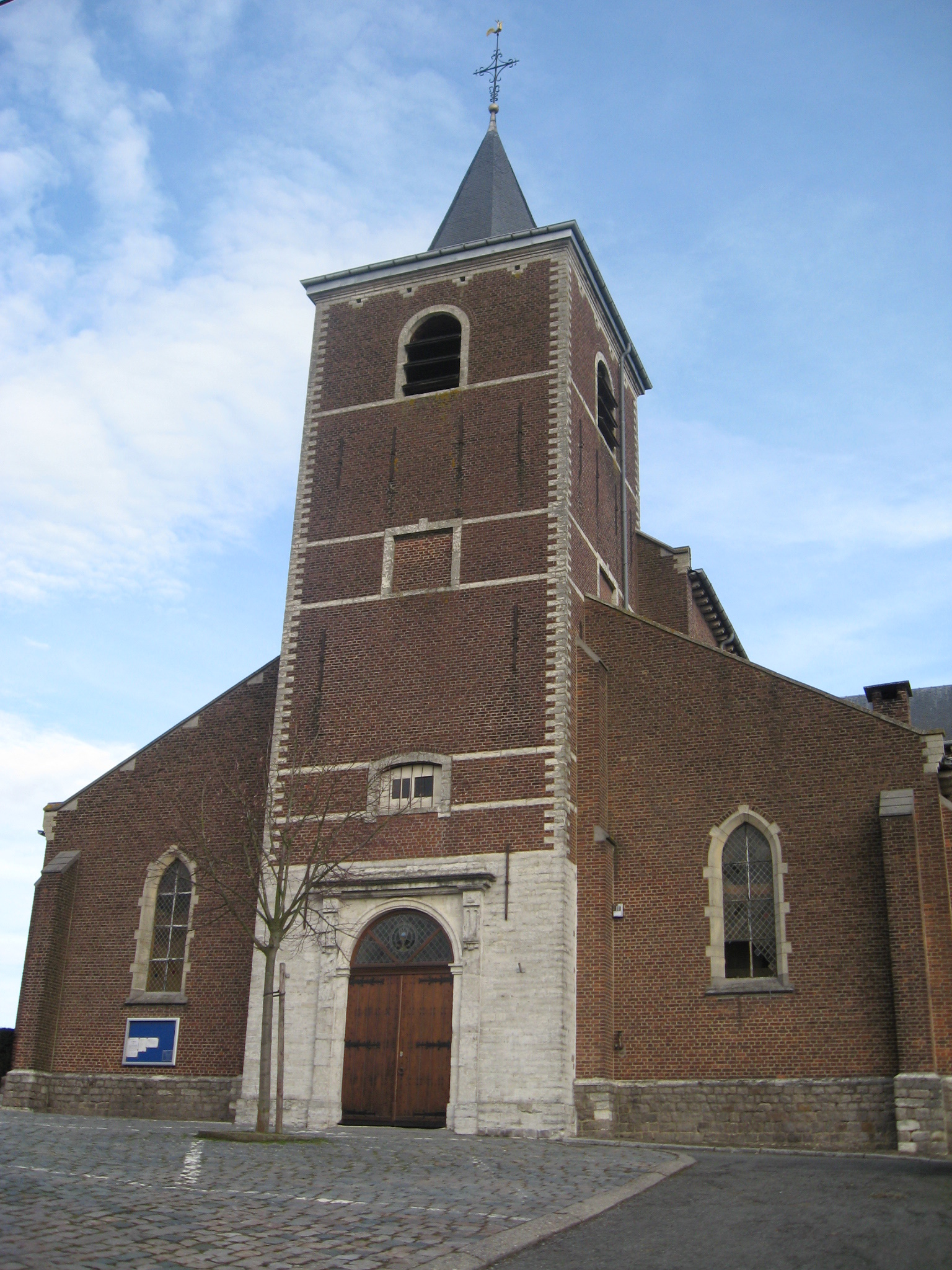 Church of Saint Foillan in Neerlinter, Linter, Flemish Brabant, Belgium